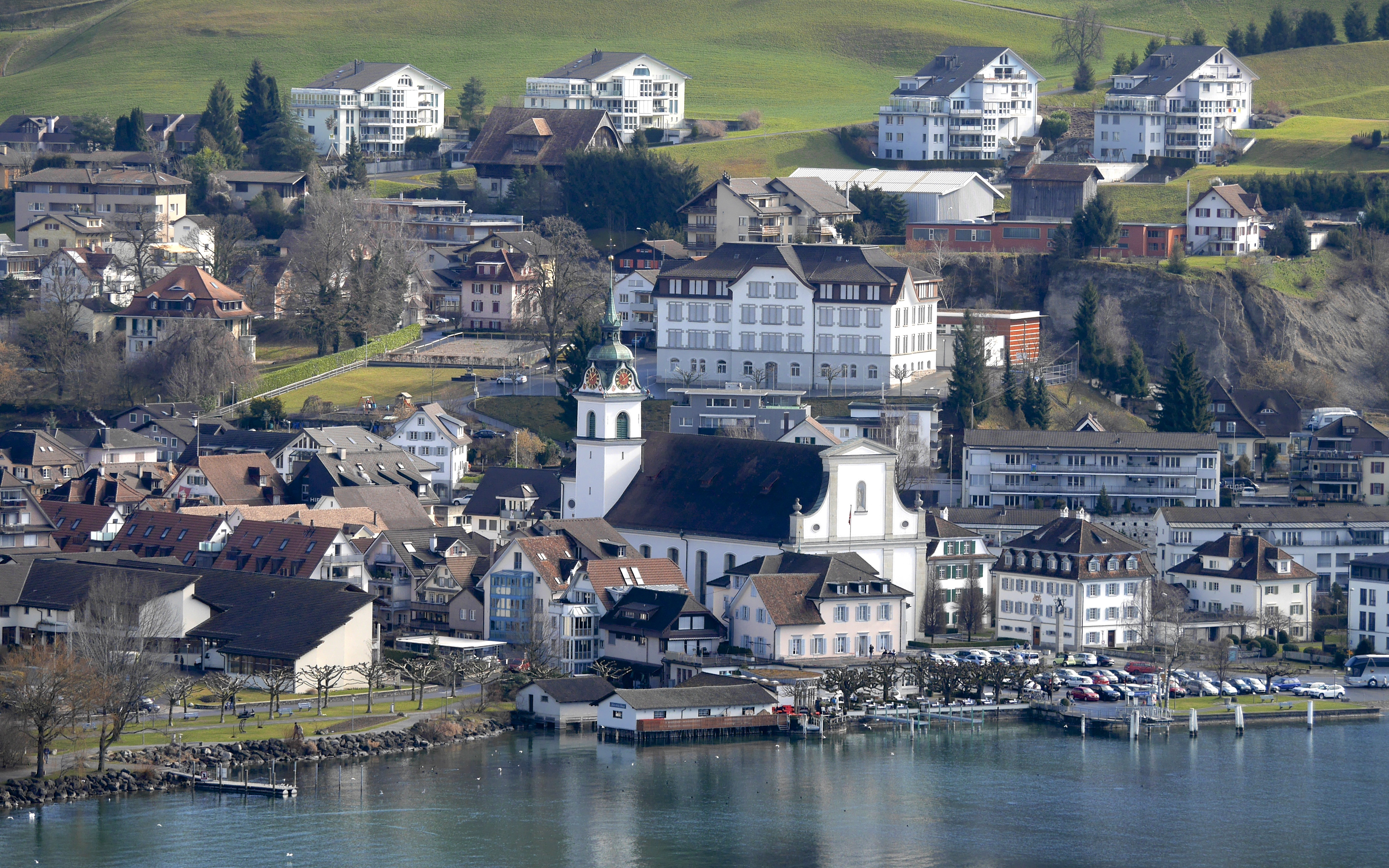 Küssnacht am Rigi, Kanton Schwyz, Schweiz